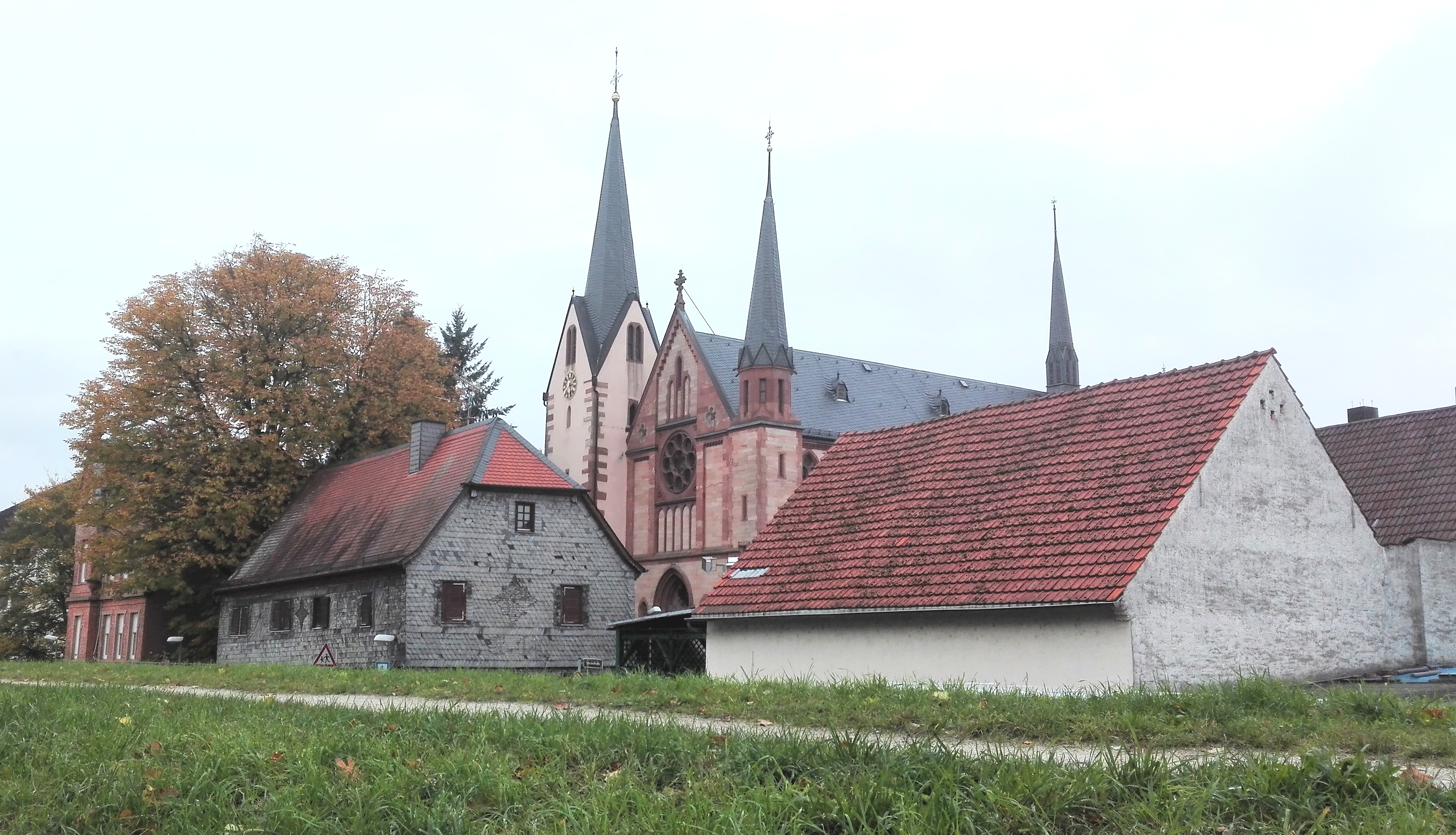 View from the Mainpromenade to the westside of the Neo-Gothic Catholic Parish Church St. Pankratius in Offenbach-Bürgel